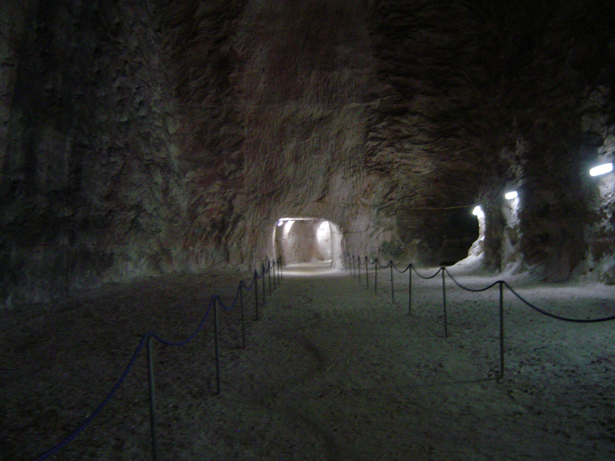 One of chambers in salt mine in Kłodawa, Poland, accesable for tourist